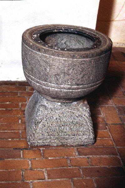 Baptismal font in Tirsted Kirke (church), originally from Brahetrolleborg Kirke.